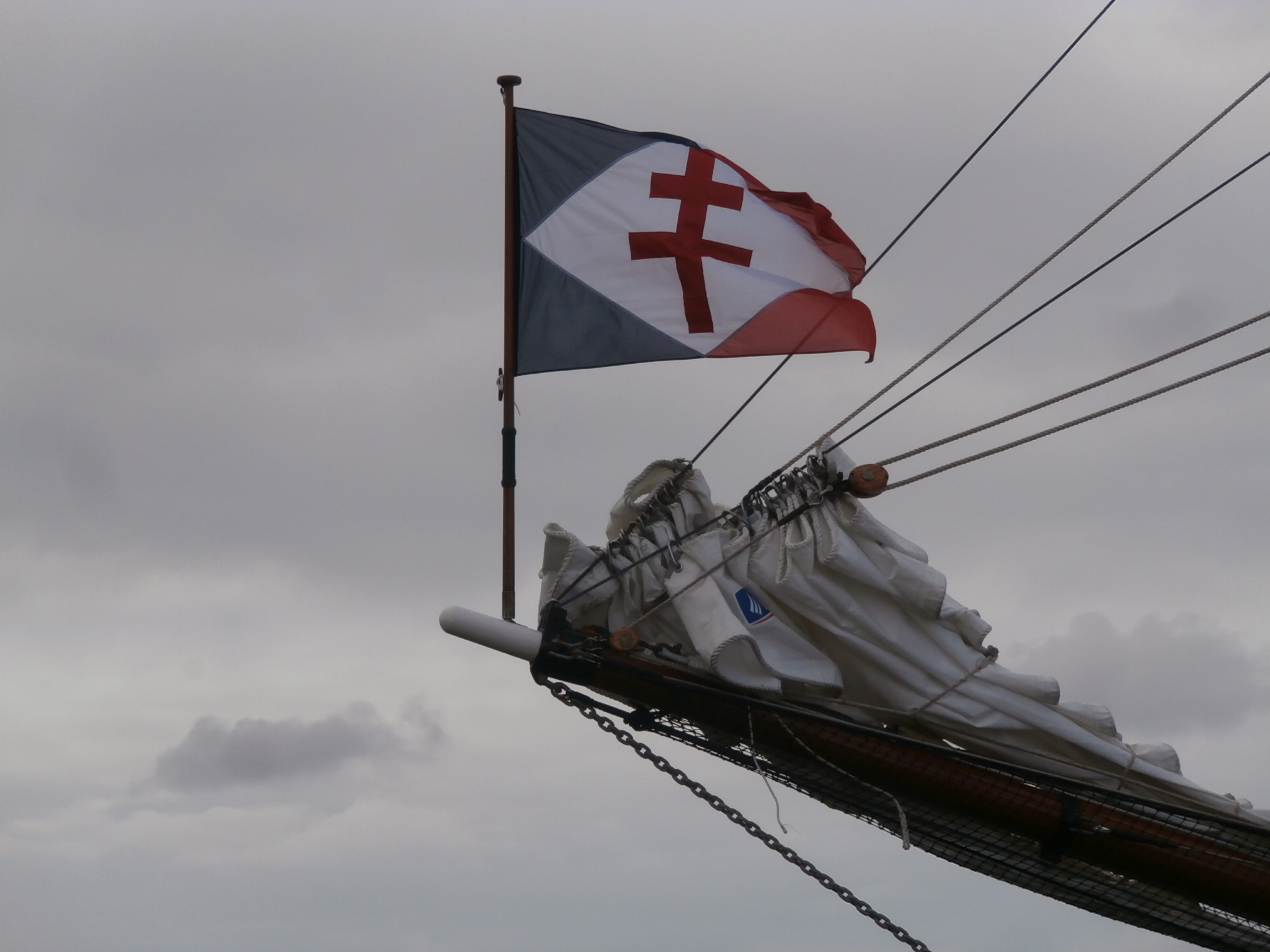 Belle Poule jack, Port Noblessner, Tallinn 17 July 2017